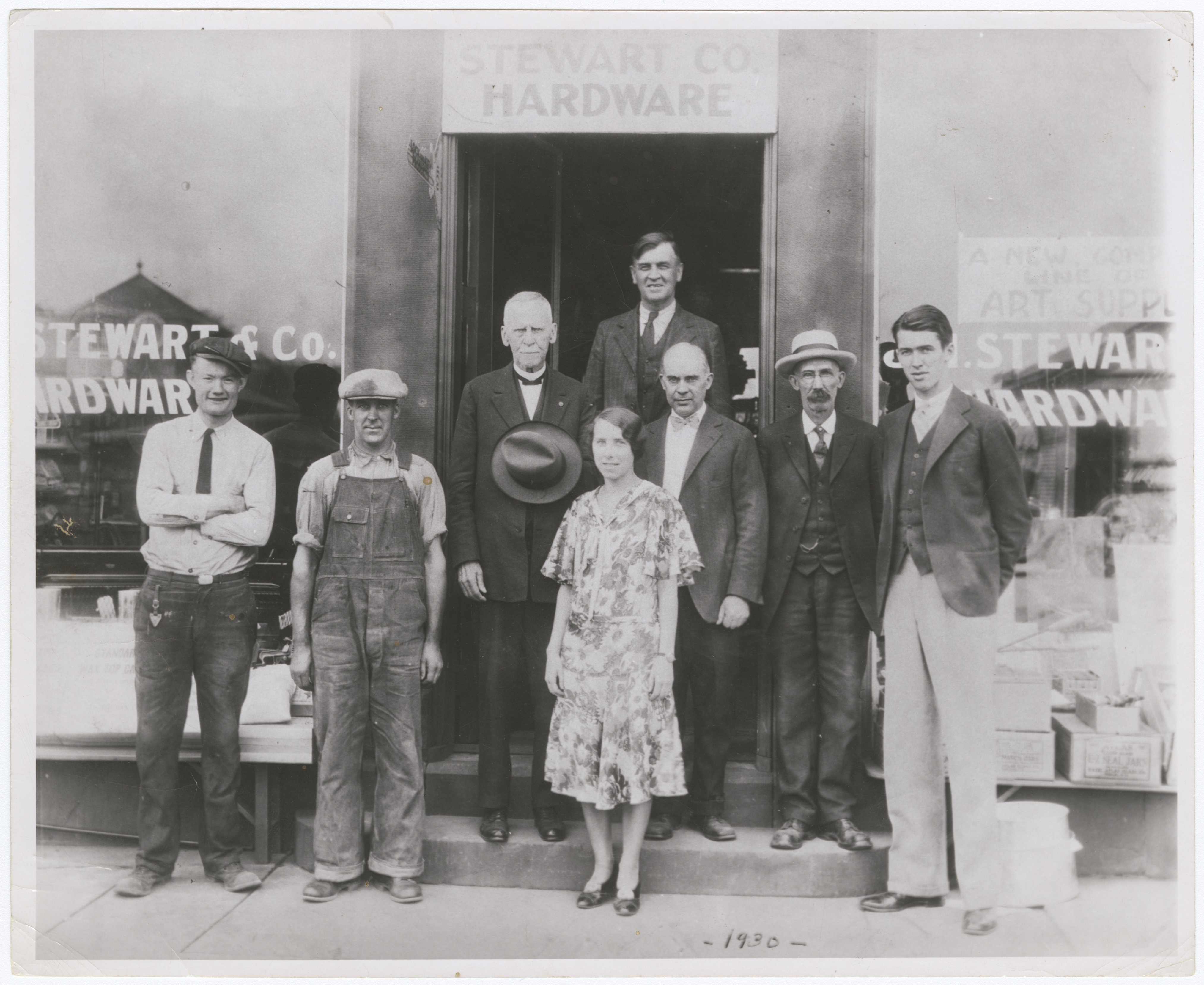 J.M. Stewart and Co. Hardware Store in Indiana, Pennsylvania with James Stewart and his father Alexander Stewart in front